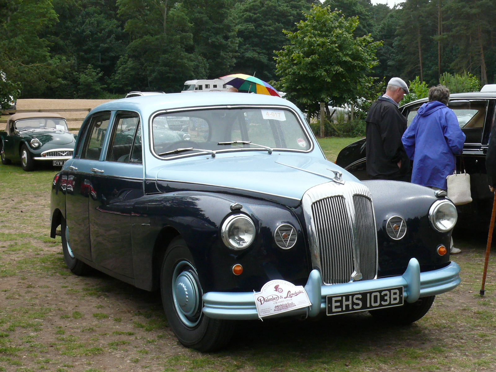 Daimler Majestic Major [EHS 103B] Daimler & Lanchester Owners Club, International Rally, Queen's Birthday weekend, Sandringham, Norfolk Sunday 12 June 2011 (DVLA) 4561cc, reg 12 June 1964